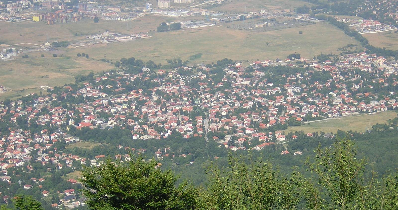 View of the village Dragalevtsi (near Sofia, Bulgaria) from the viewpoint Kikish.